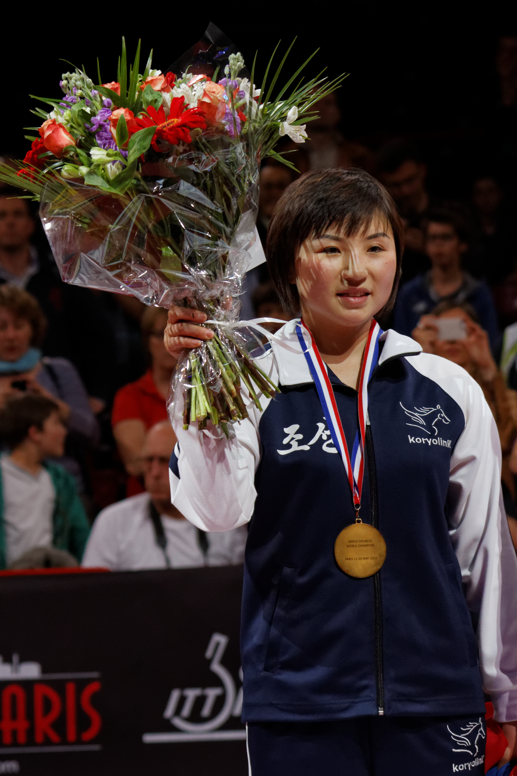 2013 World Table Tennis Championships, Paris. Mixed Doubles Final. Lee Sang-Su and Park Young-Sook vs Kim Hyok-Bong and Kim Jong.